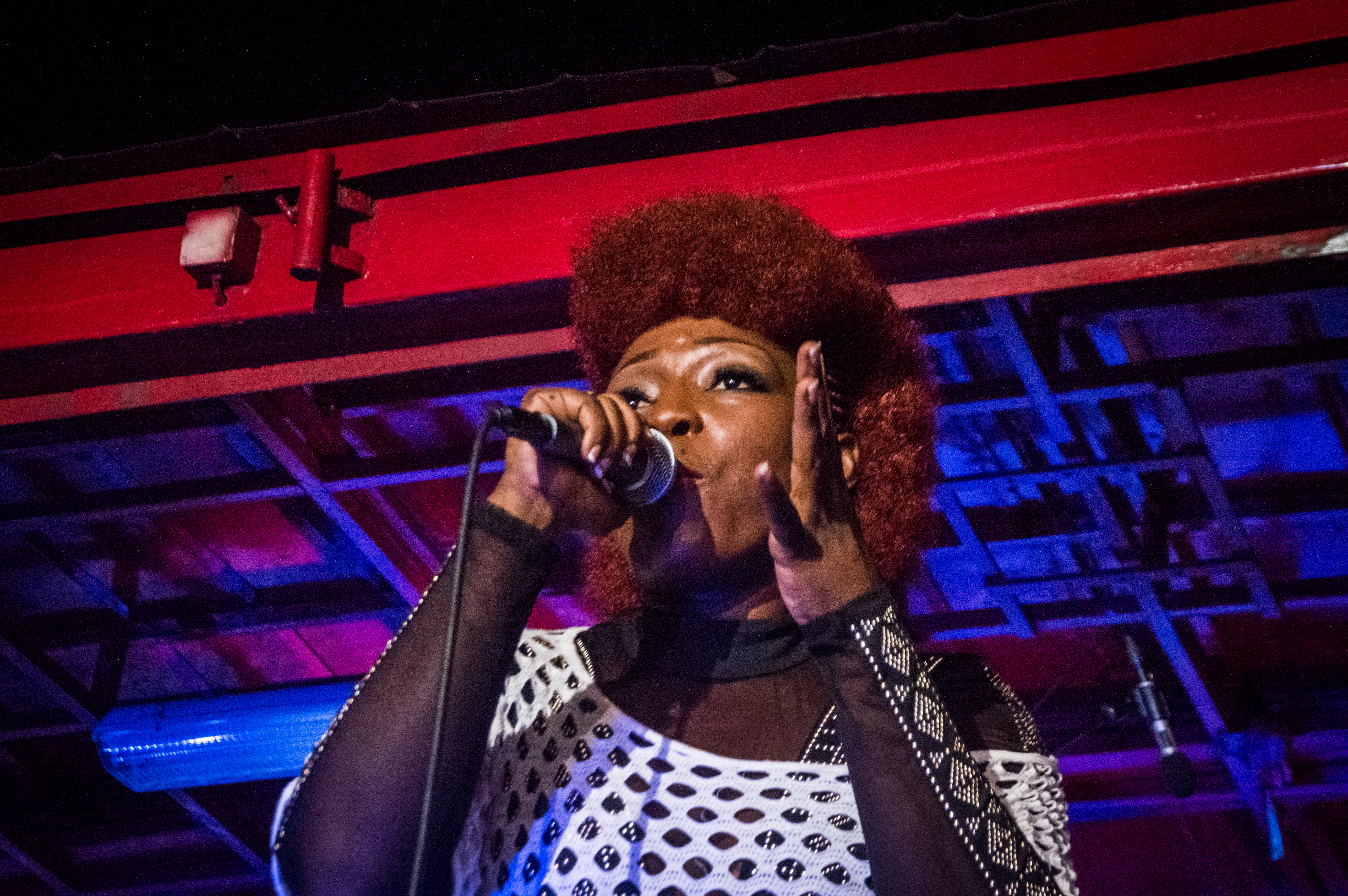 L'artiste Lynda Raymonde pendant la Fête de la musique 2017 devant l'Institut Français du Cameroun - Douala